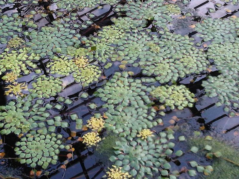 Mosaic flower or False loosestrife (Ludwigia sedoides) in Kew Gardens, England